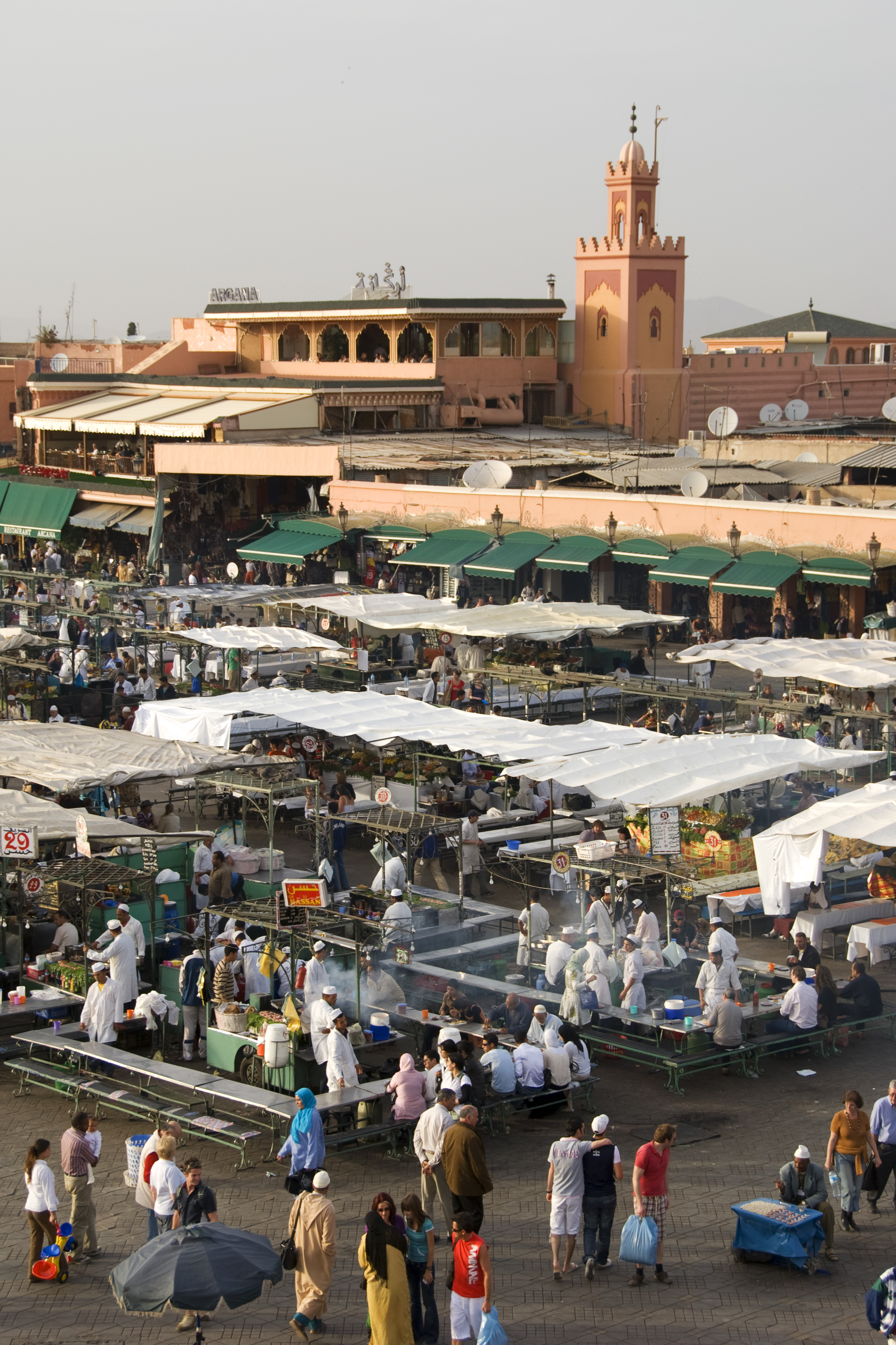 The whole set from Morocco